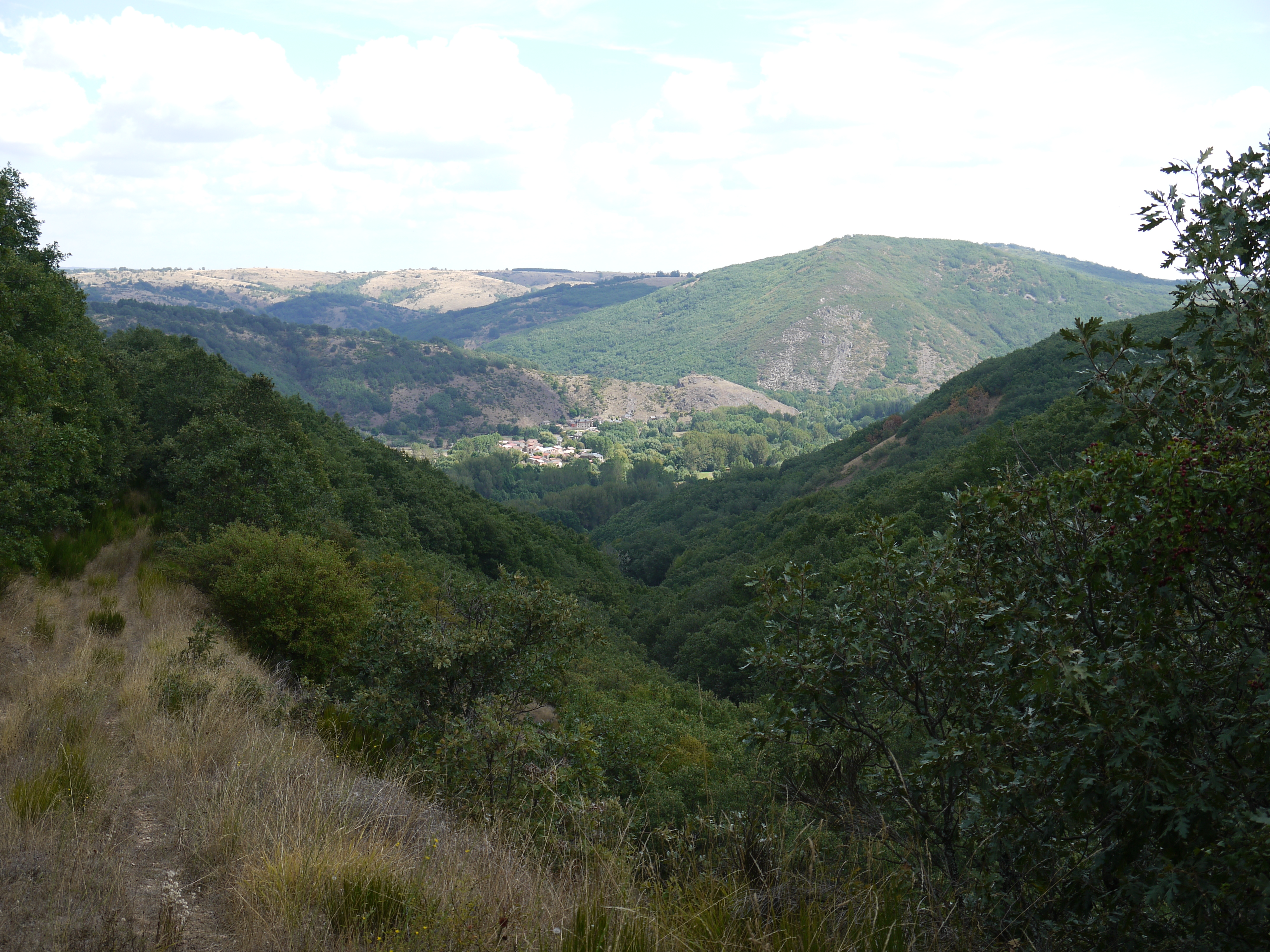 View over Trascastro de Luna